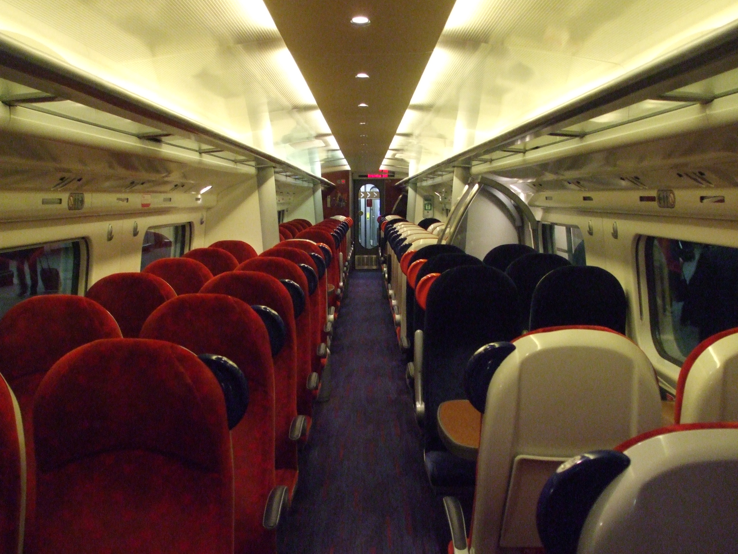 Class 390 Pendolino interior (standard class)